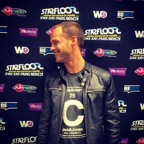 k mash